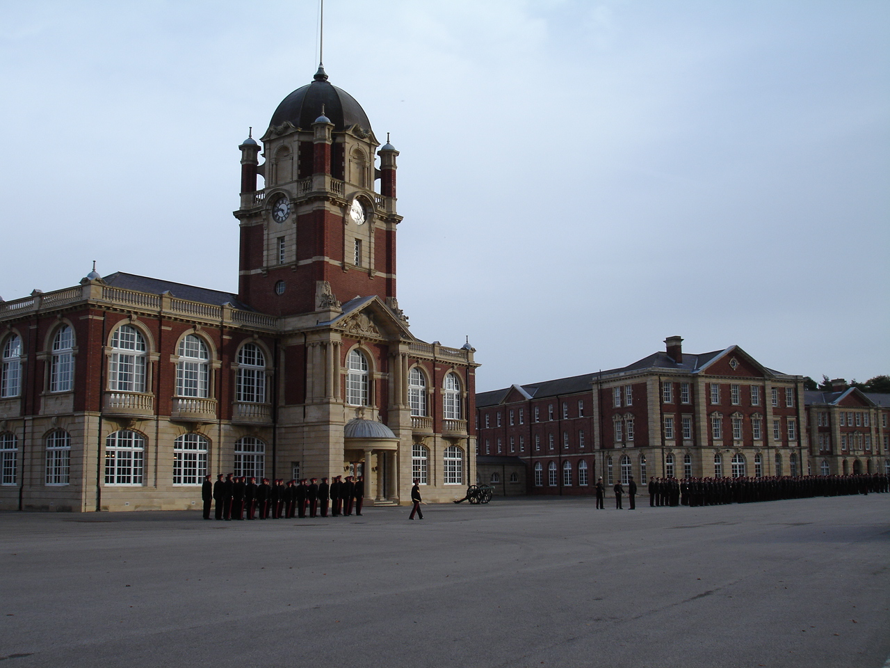 Photo of New College, Royal Military Academy Sandhurst